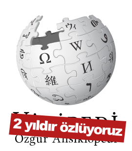 Turkish Wikipedia logo with red censor bar reading "2 yıldır özlüyoruz" (